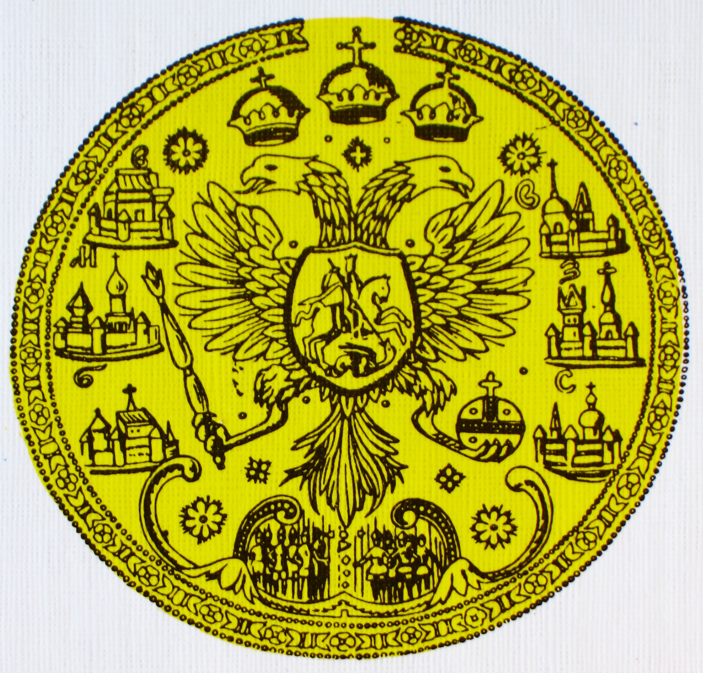 Seal of Alexis I of Russia and Peter I